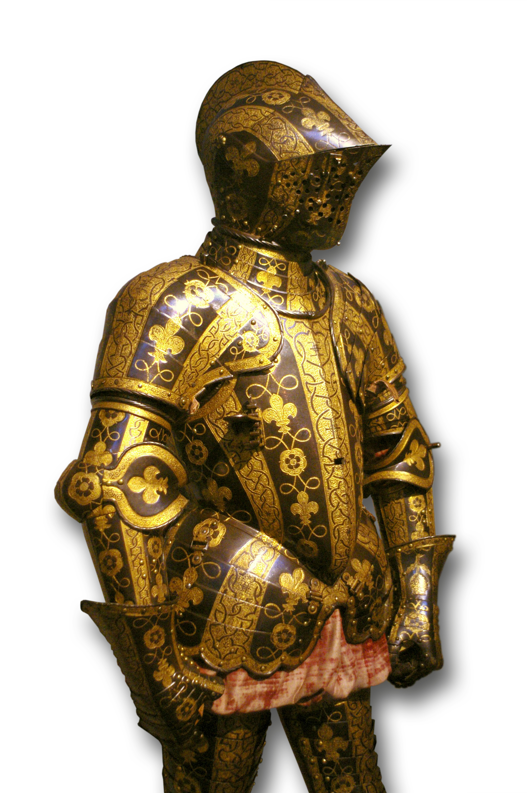 The tournament armour of Sir George Clifford